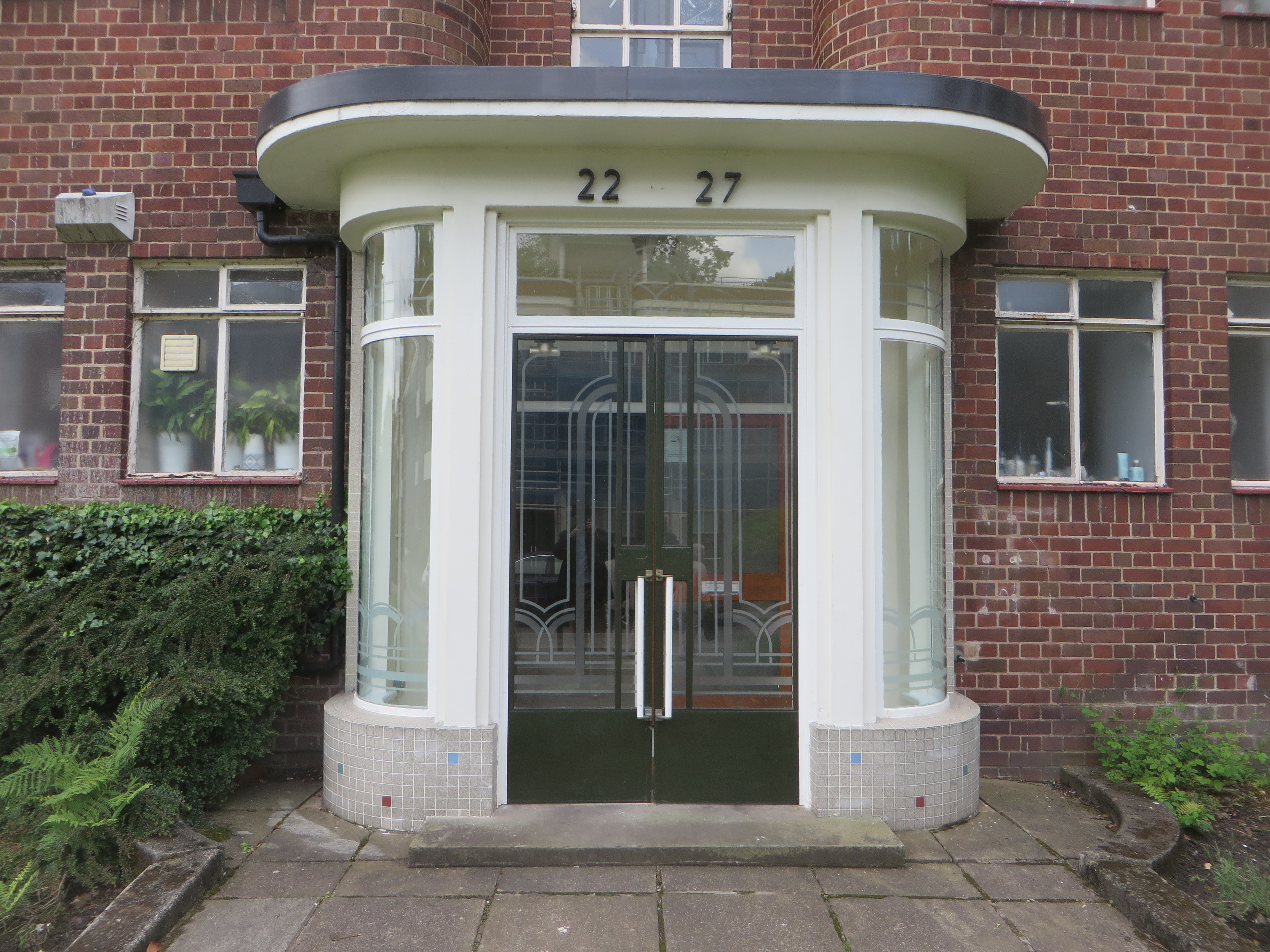 Entrance door at Appleby Lodge, Wilmslowe Road, Rushholme, Manchester, England.